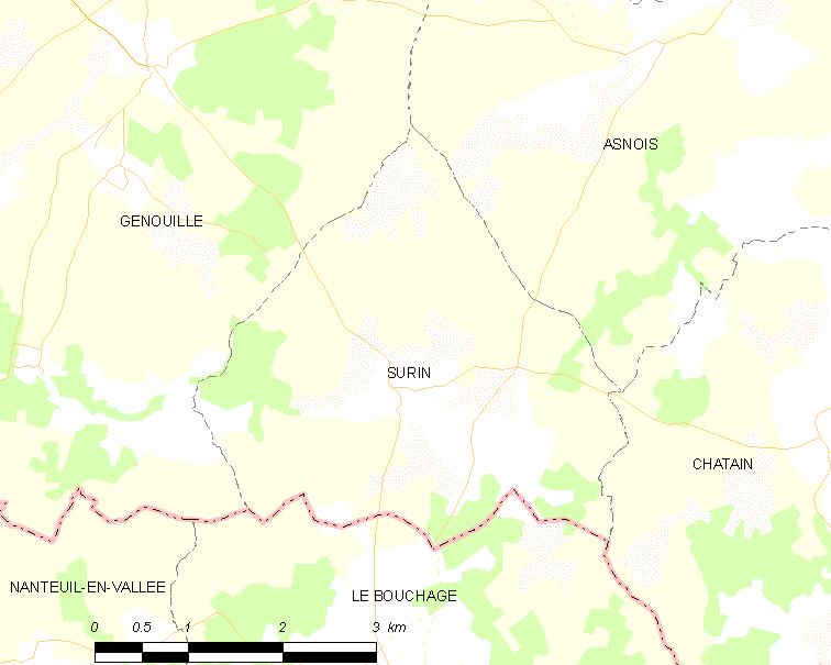 Map of French municipality Surin